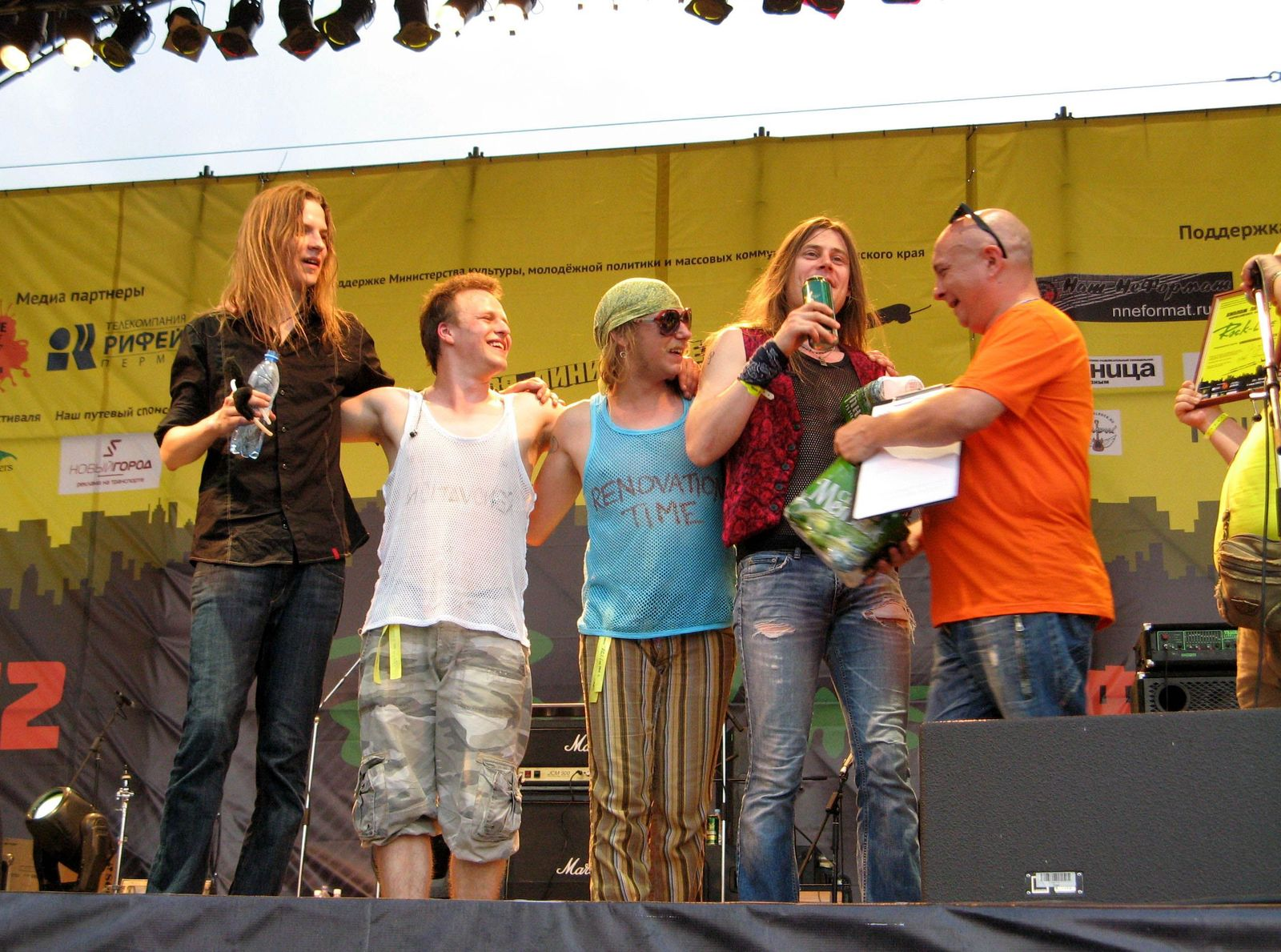 Underground Attack on "Rock-Line-2012" festival in Perm, Russia